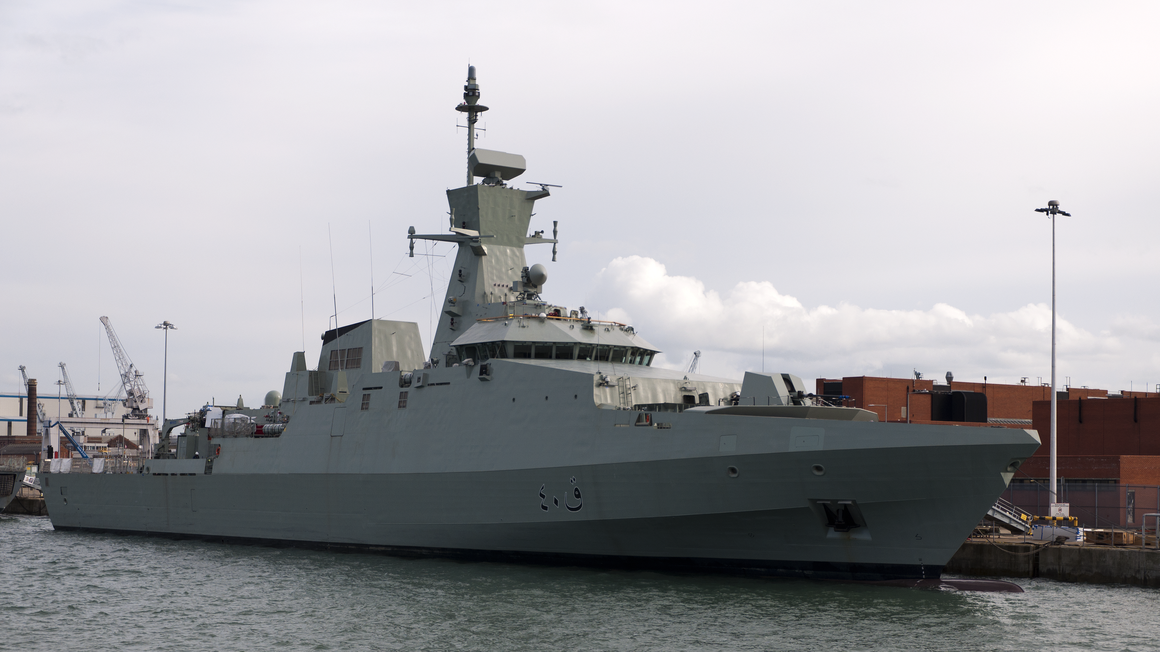 corvette Al-Shamikh, Oman in the harbour of Portsmouth, England